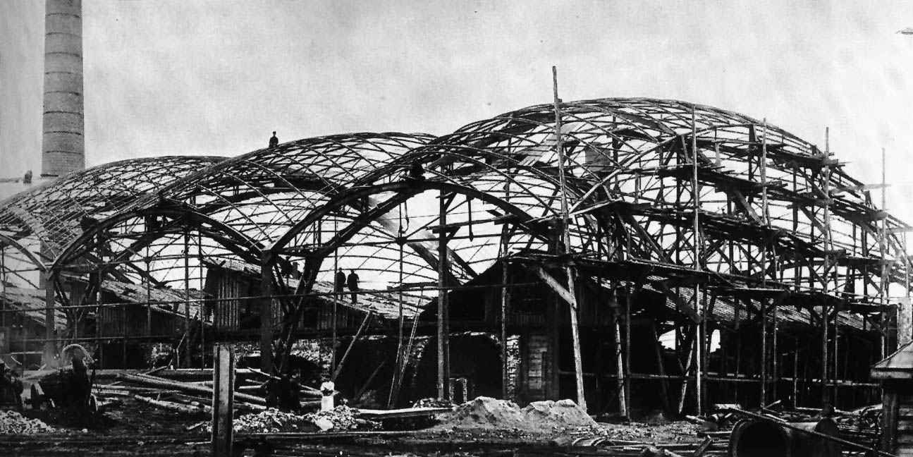 The double curvature Diagrid Shell by Vladimir Shukhov in Vyksa near Nizhny Novgorod during construction, 1897